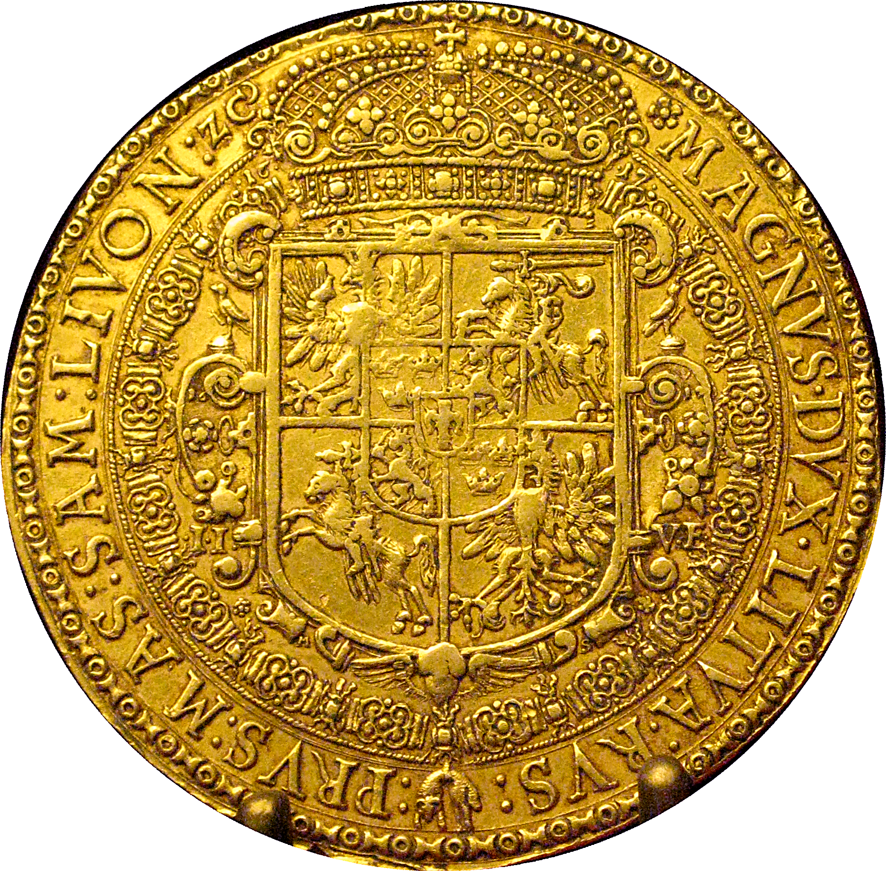 100 ducats of Sigismund III Vasa from 1617